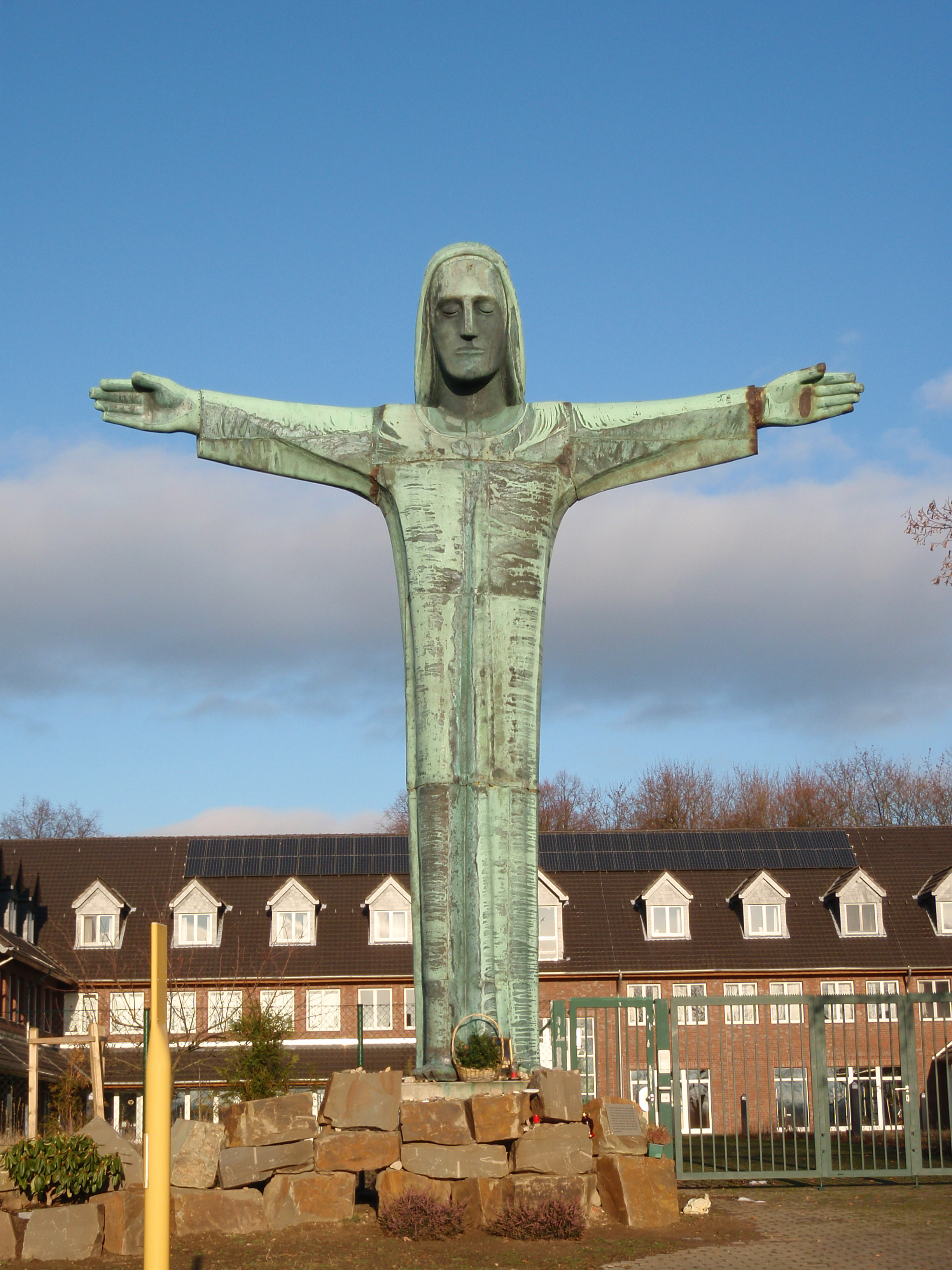 Photo of the statue of Jesus Christ in front of a building of Society of the Divine Word in Sankt Augustin, Germany.